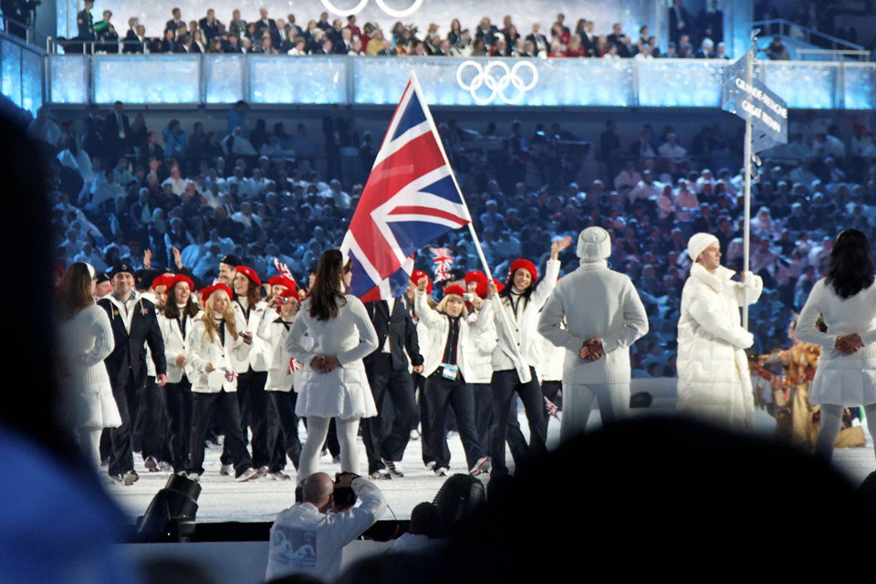 Skeleton athlete Shelley Rudman of Great Britain leads her Country.